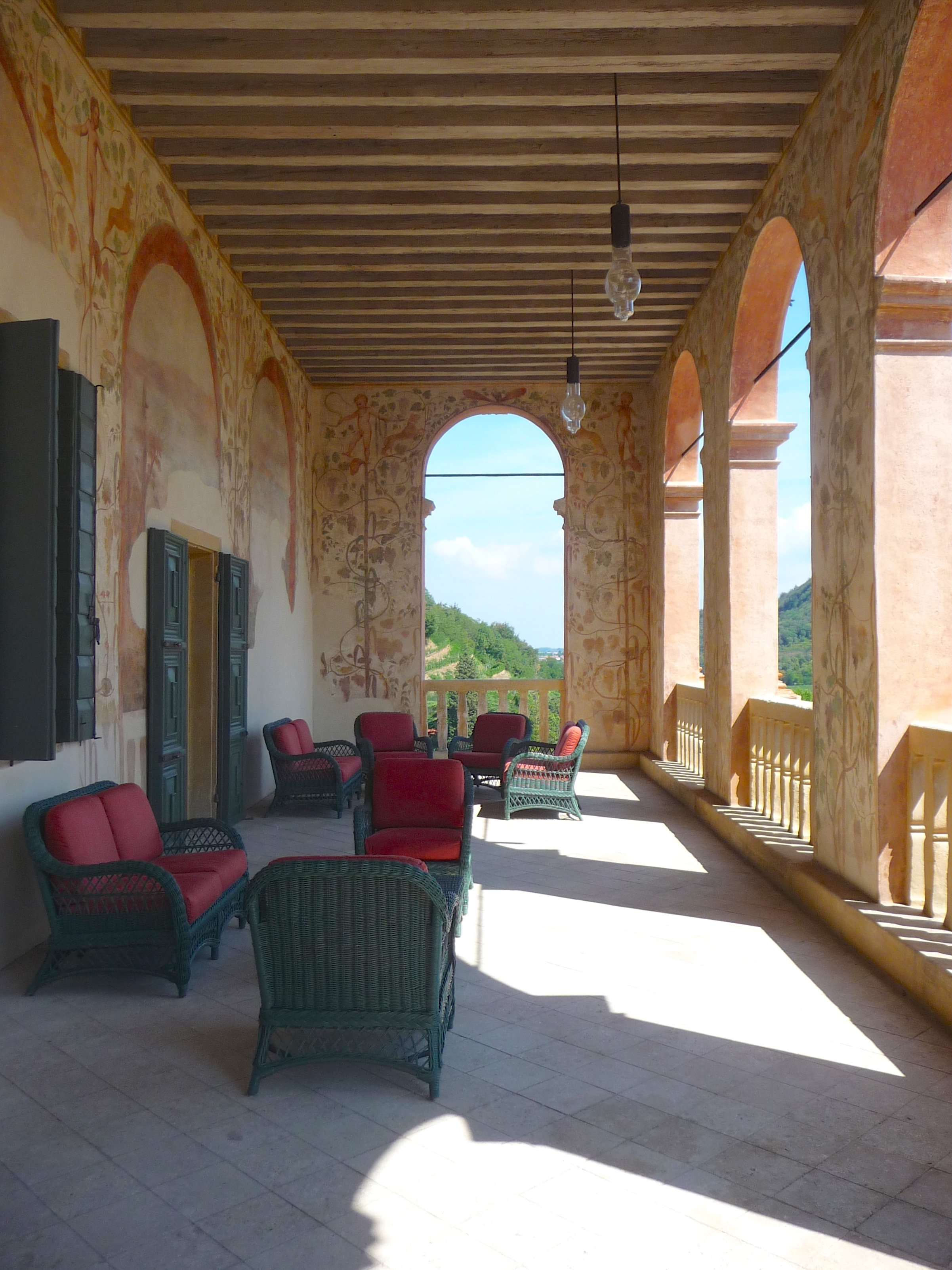 Villa dei Vescovi in Luvigliano of Torreglia (province of Padua), Italy.